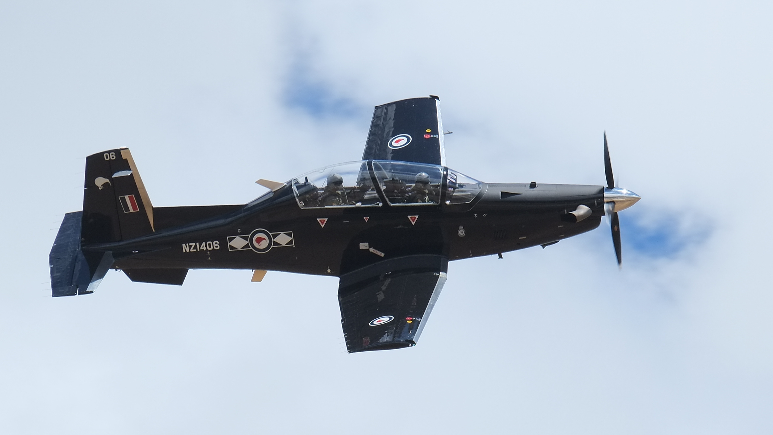 Beechcraft T-6 Texan II (RNZAF Pilot Training Aircraft) flying past